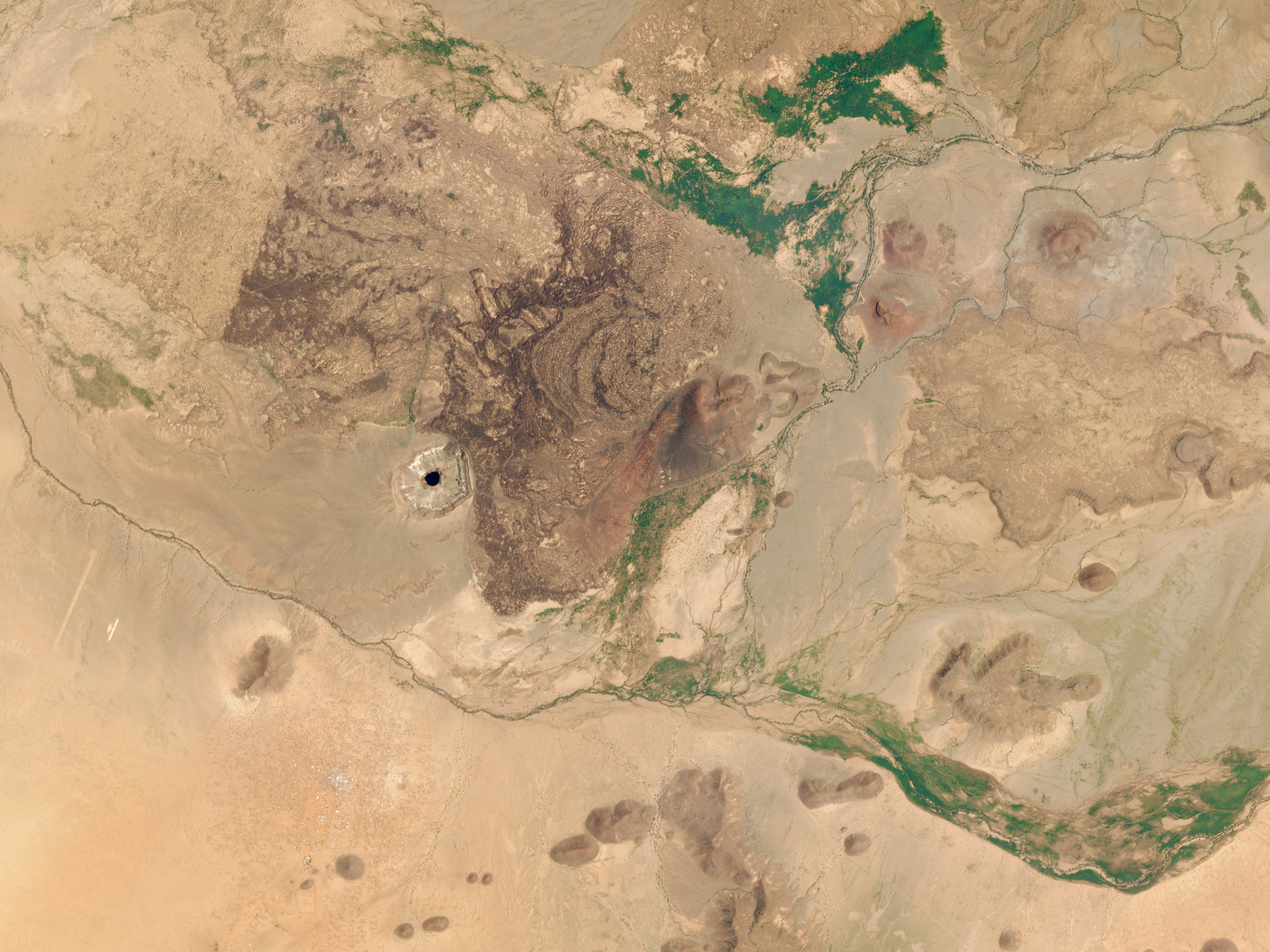 Malha Wells, Sudan September 13, 2016 The village of Malha Wells (lower left)—is located near a small lake in the center of an ancient volcanic crater. The lake provides water in an otherwise arid region of Darfur, Sudan.